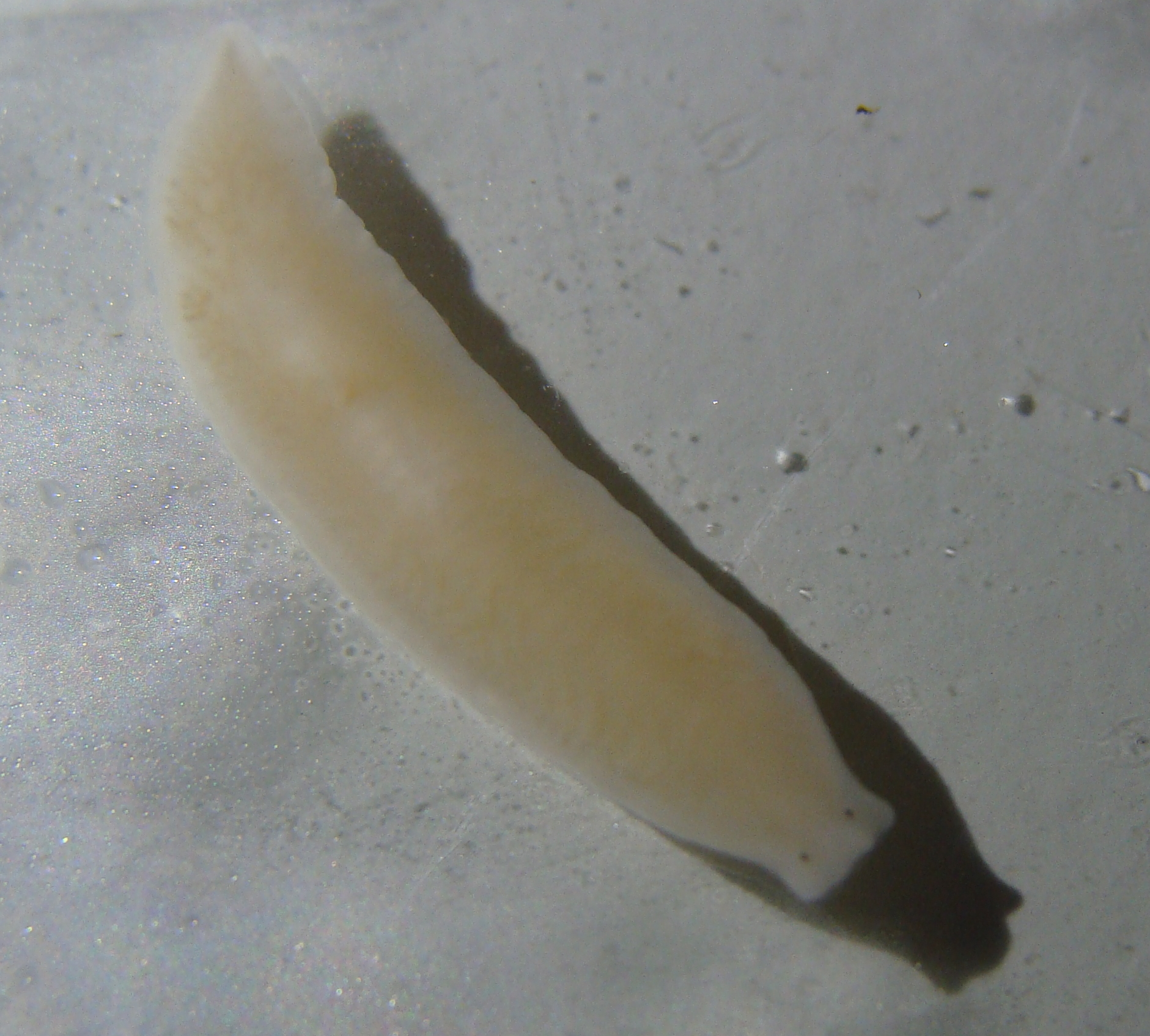 Dendrocoelum lacteum from South France.